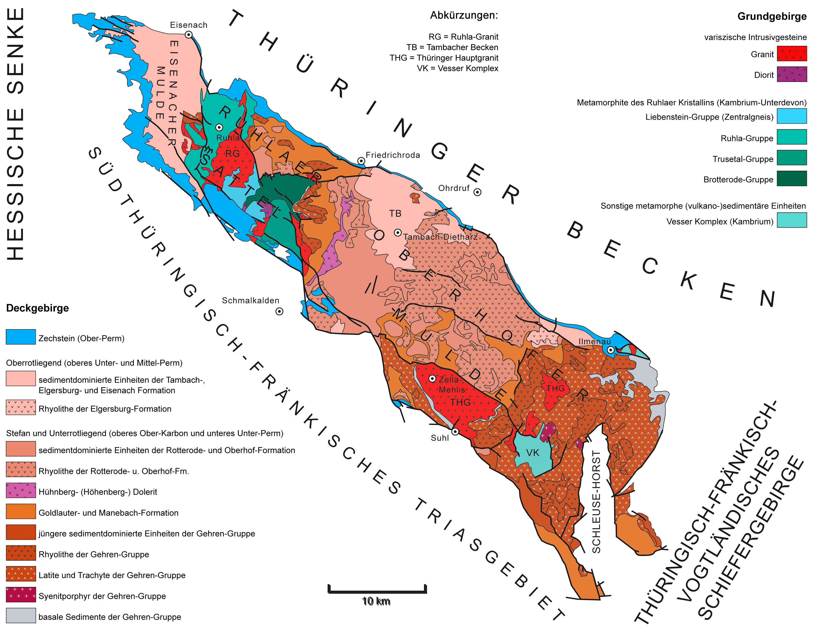 Geologic overview map of the Thuringian Forest, Gentral Germany (after GÜK 200, simplified)